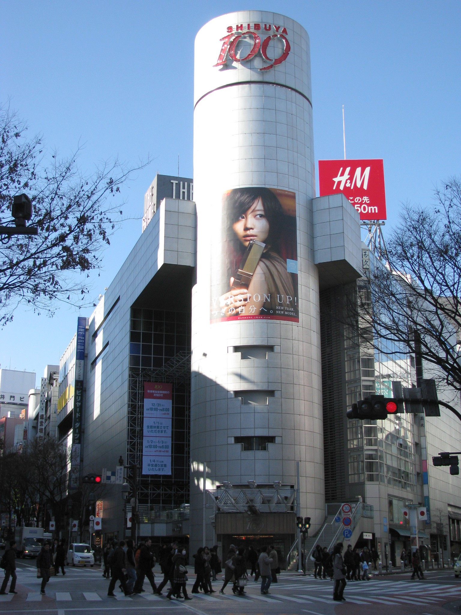 The Shibuya 109 is department store. There are many fashion boutiques in it, lead the fashion in Japan. This located in Shibuya, Tokyo.